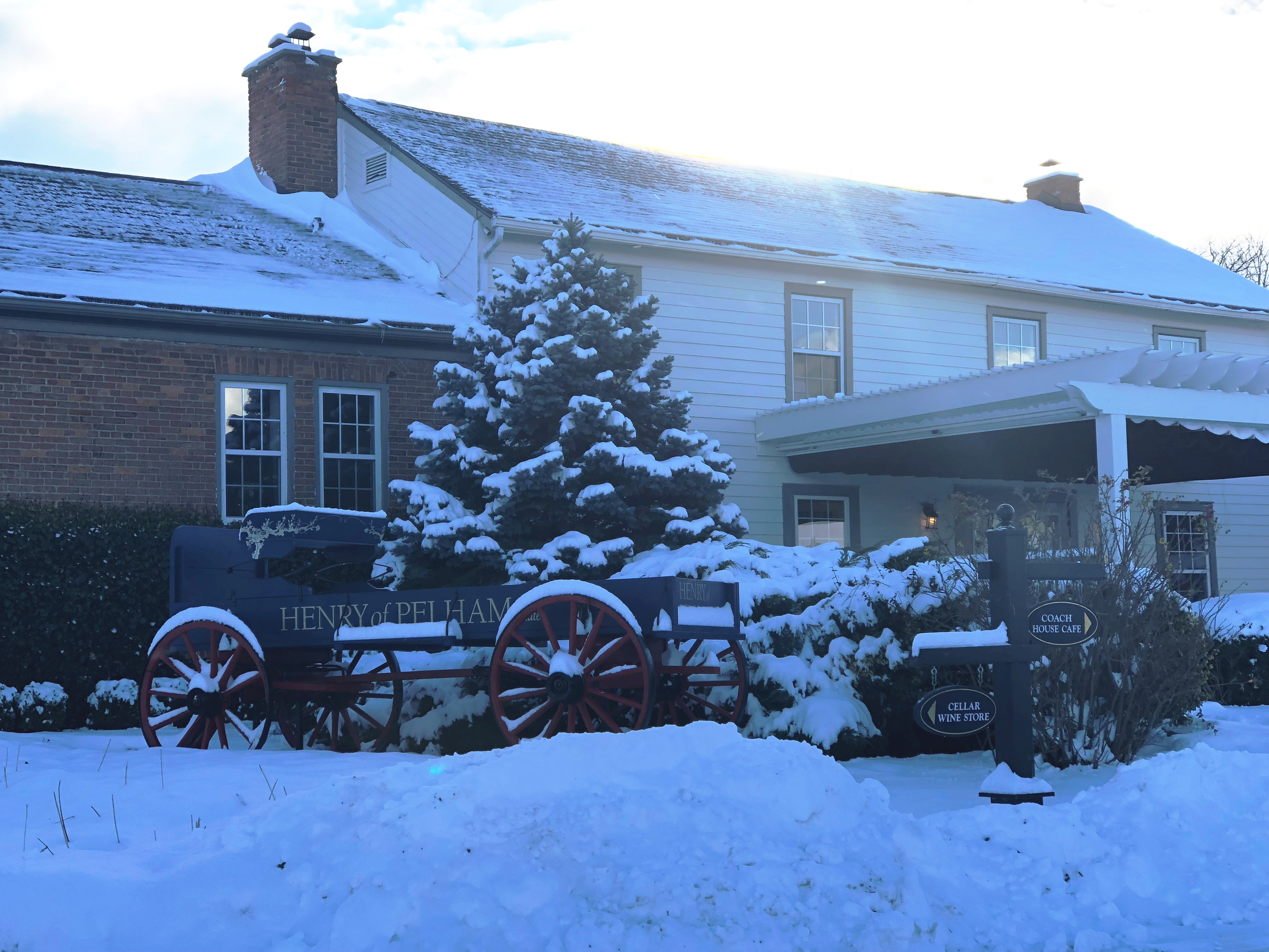 Henry of Pelham entrance and retail store